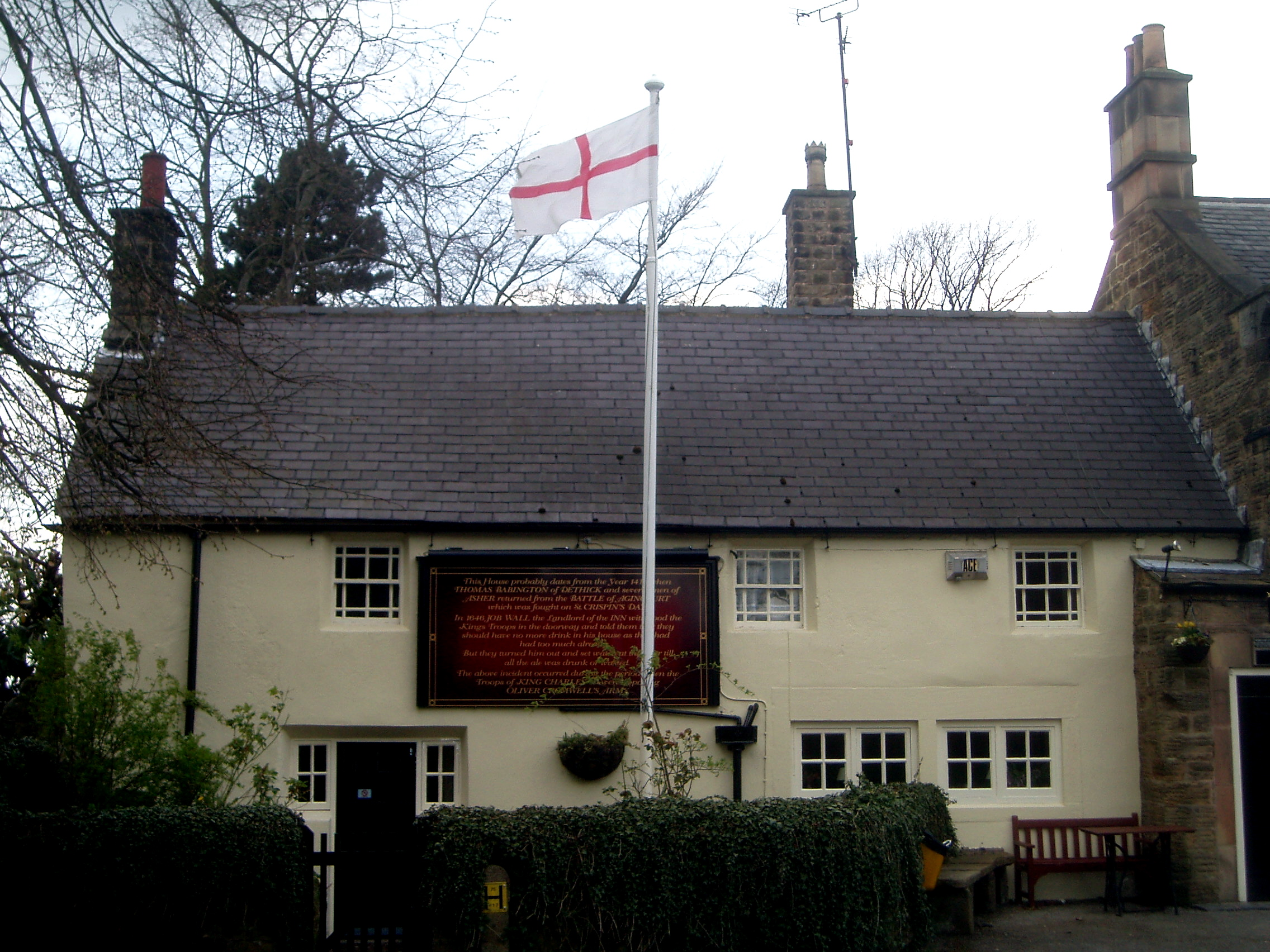 The Crispin Inn, Ashover, Derbyshire, United Kingdom. Image: J. Skinner, April 2005.